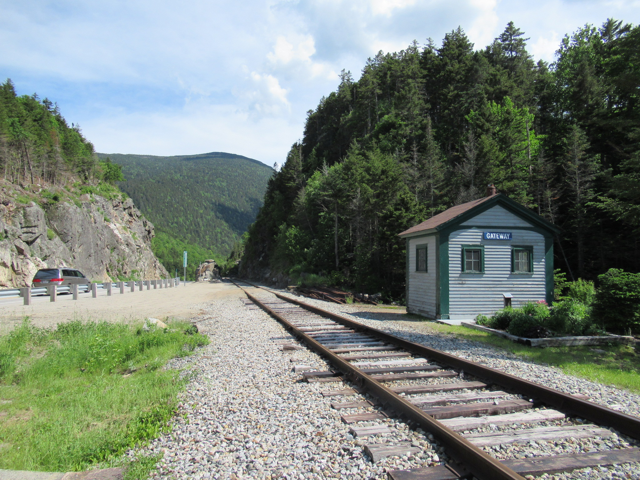 The Mountain Division railroad at the Gateway of Crawford Notch in the White Mountains (New Hampshire)